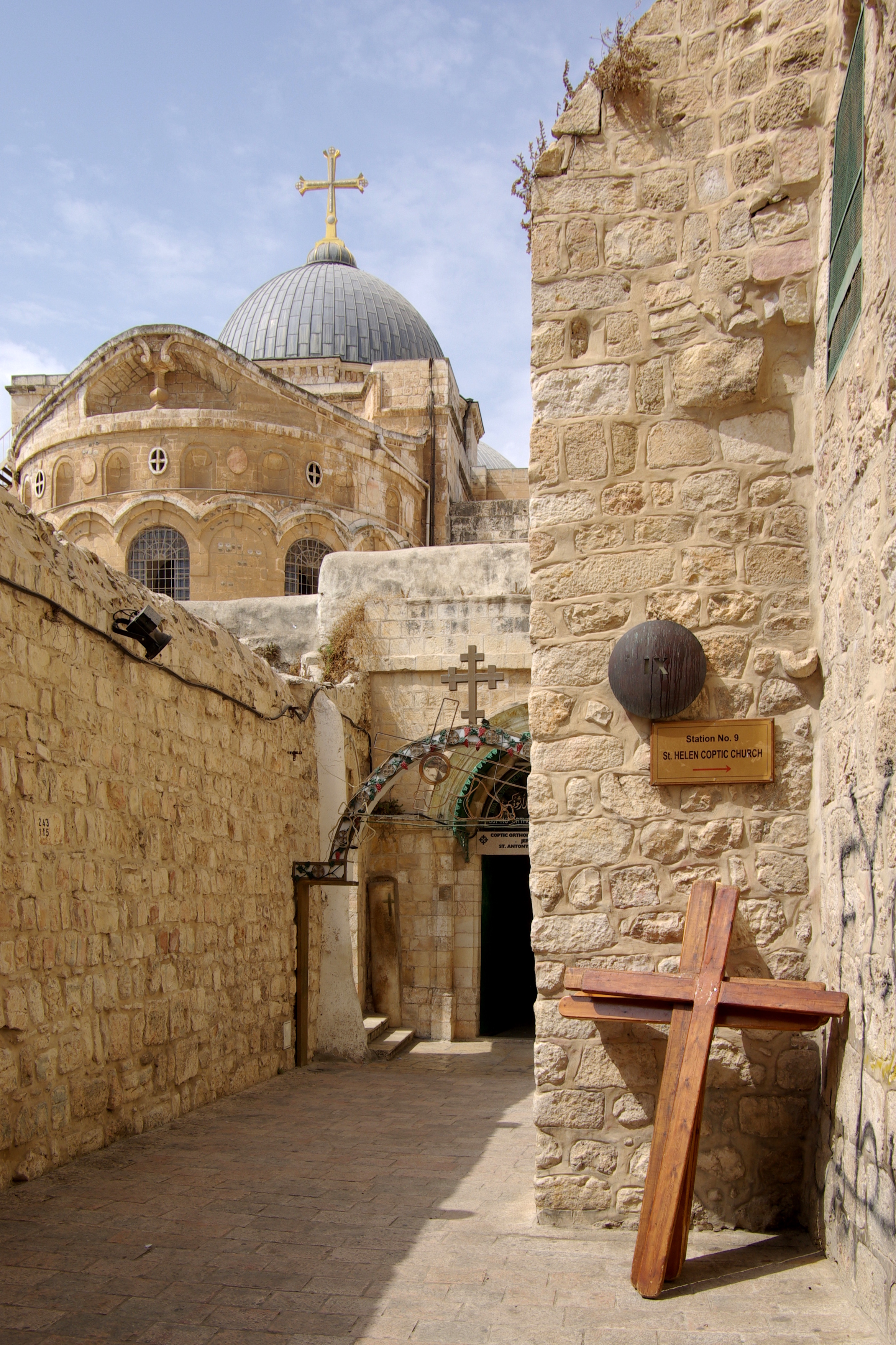 9th Station, Jesus falls for the third time, Via Dolorosa, Jerusalem.